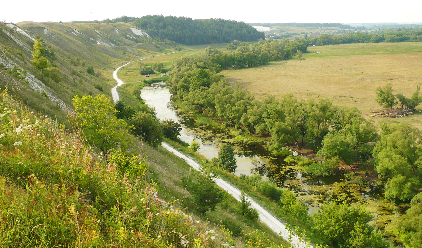 Koren river